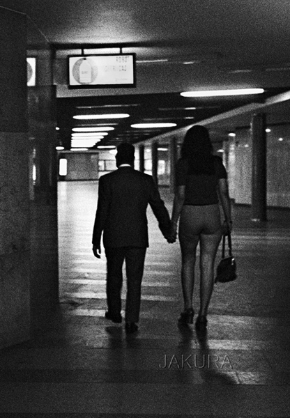 Jaroslav Kučera´s photography Personality rights warningAlthough this work is freely licensed or in the public domain, the person(s) shown may have rights that legally restrict certain re-uses unless those depicted consent to such uses. In these cases, a model release or other evidence of consent could protect you from infringement claims.